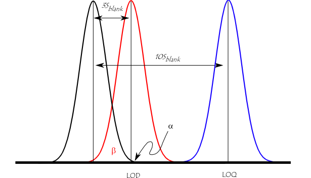 Illustration of the concept of detection limit and quantitation limit by showing the theoretical normal distributions associated with blank, detection limit, and quantification limit level samples.